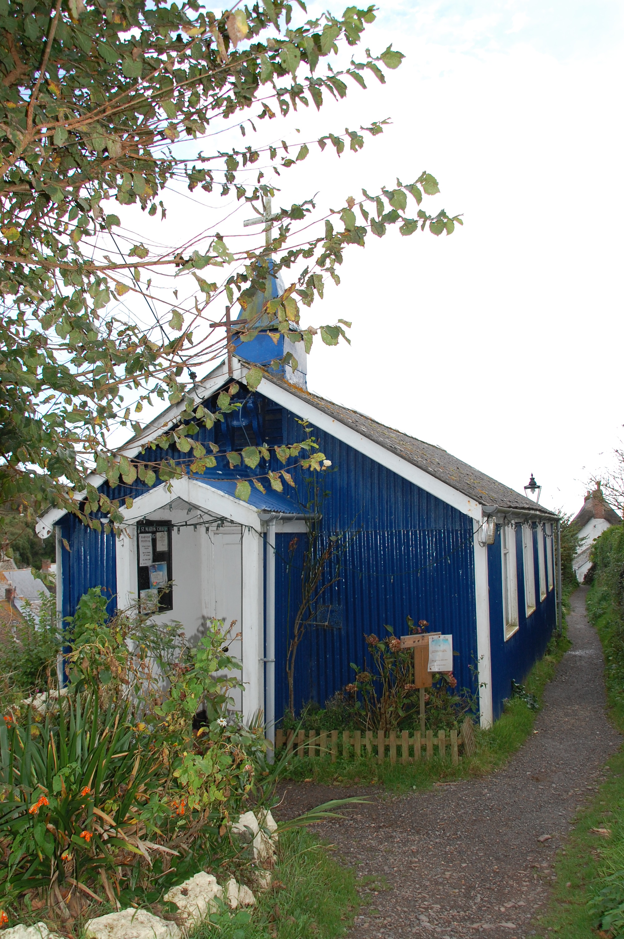 St Mary's parish church, Cadgwith, Cornwall, a "tin tabernacle" building of corrugated iron on a timber frame